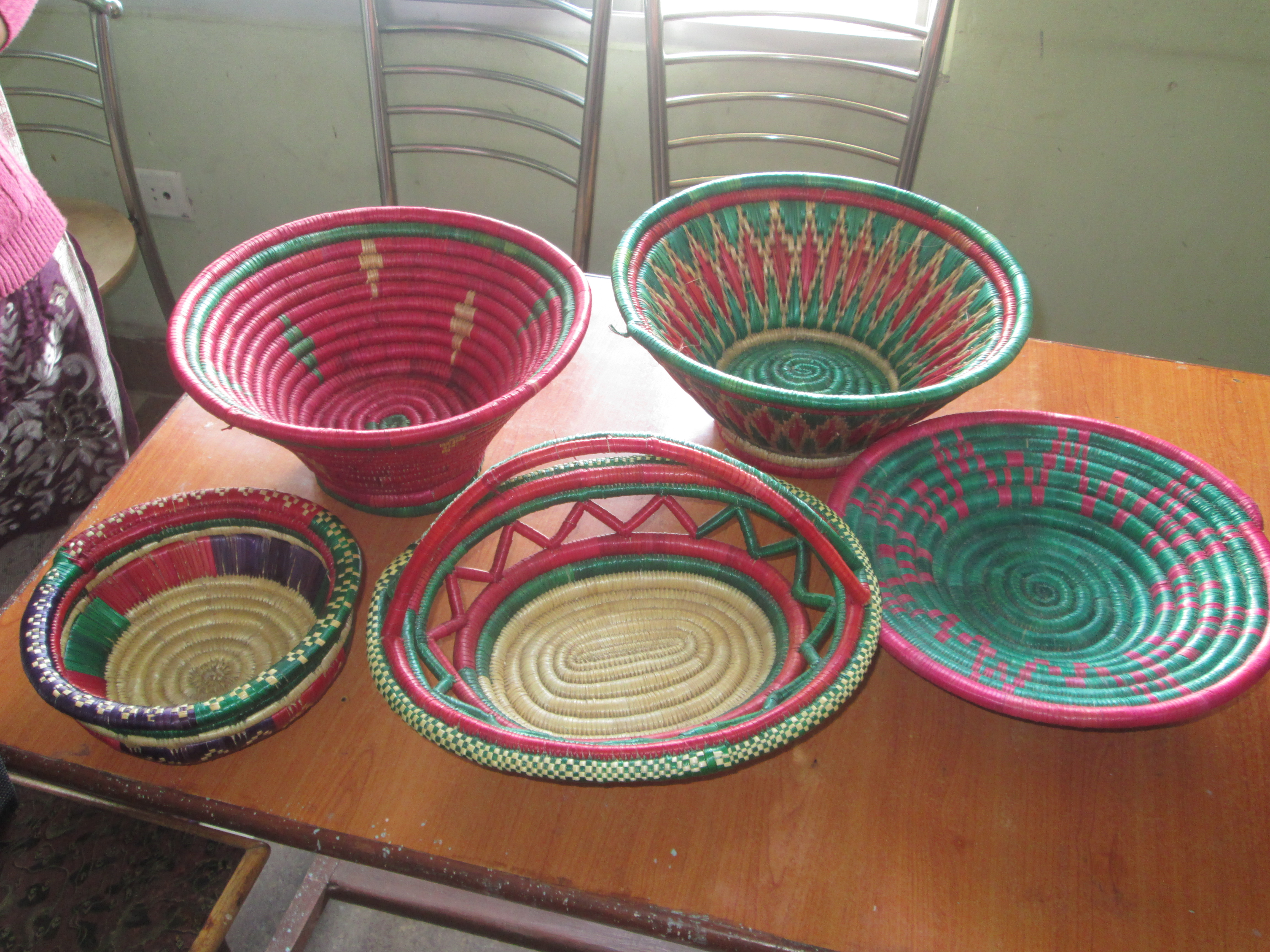 थारु हस्तकला